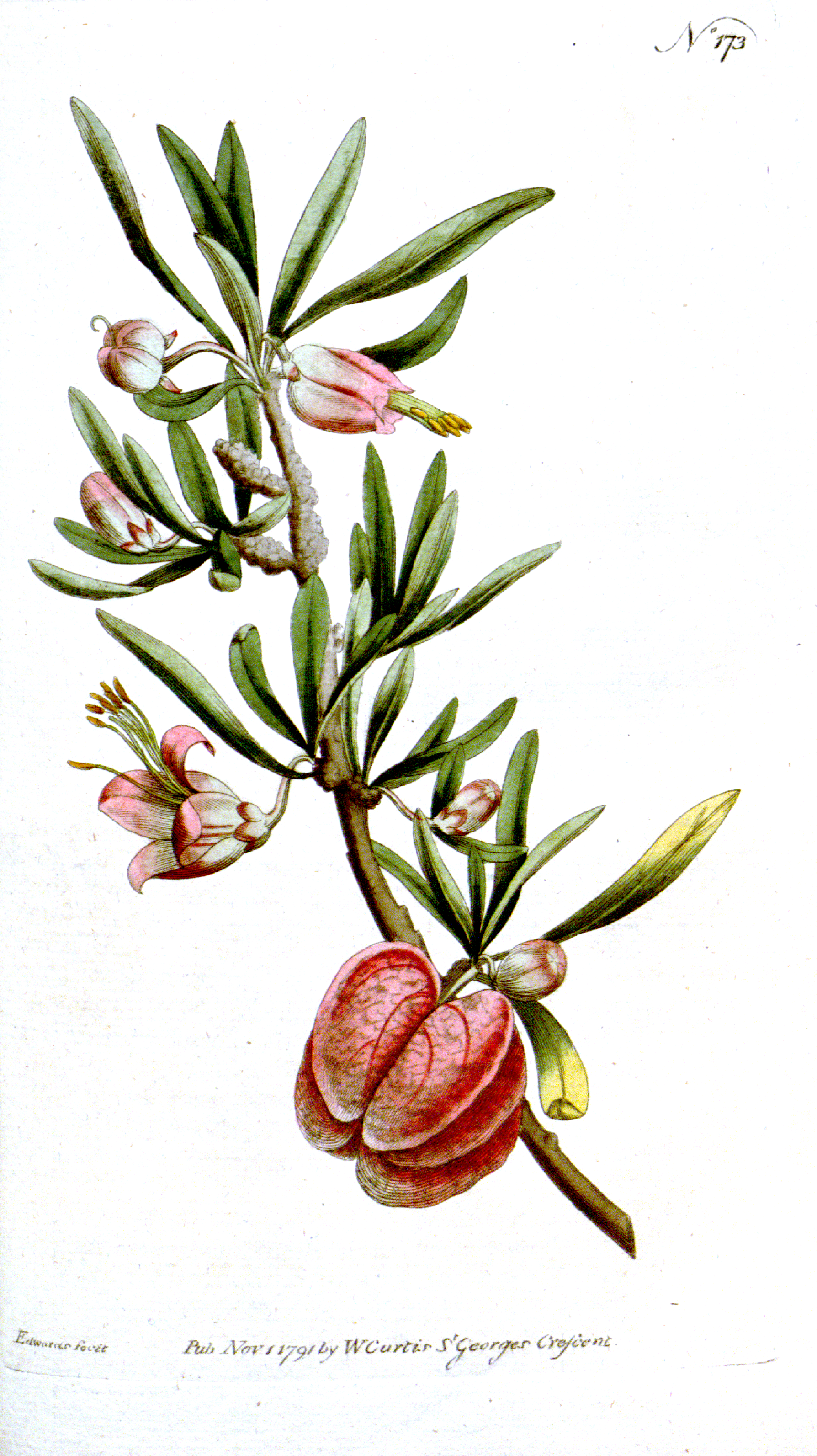 This is a plate from The Botanical Magazine, Volume 5.